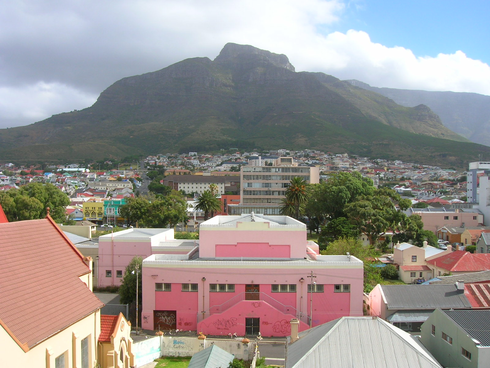 The southern side of the suburb of Woodstock, Cape Town.